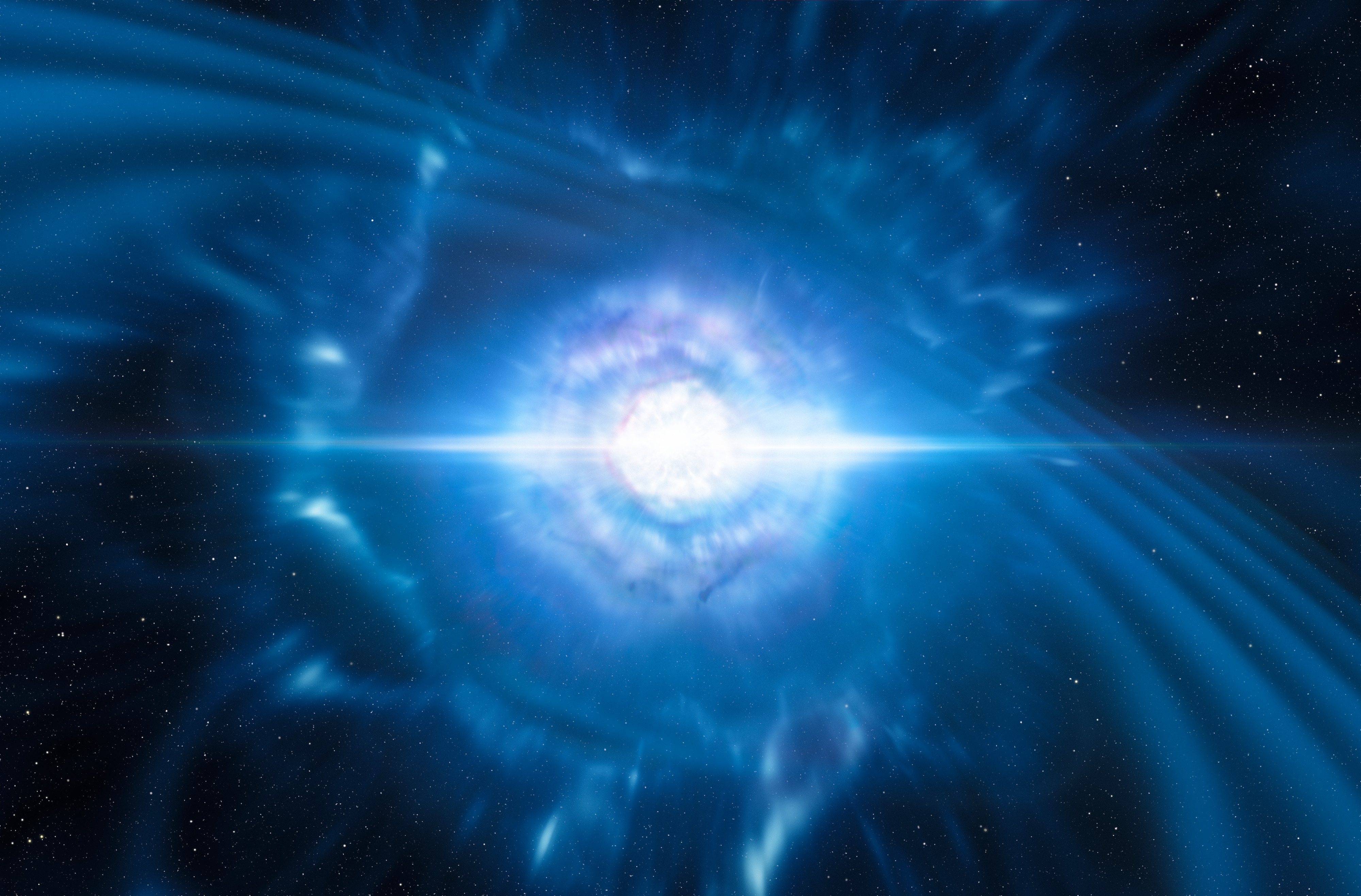 This artist’s impression shows two tiny but very dense neutron stars at the point at which they merge and explode as a kilonova. Such a very rare event is expected to produce both gravitational waves and a short gamma-ray burst, both of which were observed on 17 August 2017 by LIGO–Virgo and Fermi/INTEGRAL respectively. Subsequent detailed observations with many ESO telescopes confirmed that this object, seen in the galaxy NGC 4993 about 130 million light-years from the Earth, is indeed a kilonova. Such objects are the main source of very heavy chemical elements, such as gold and platinum, in the Universe.